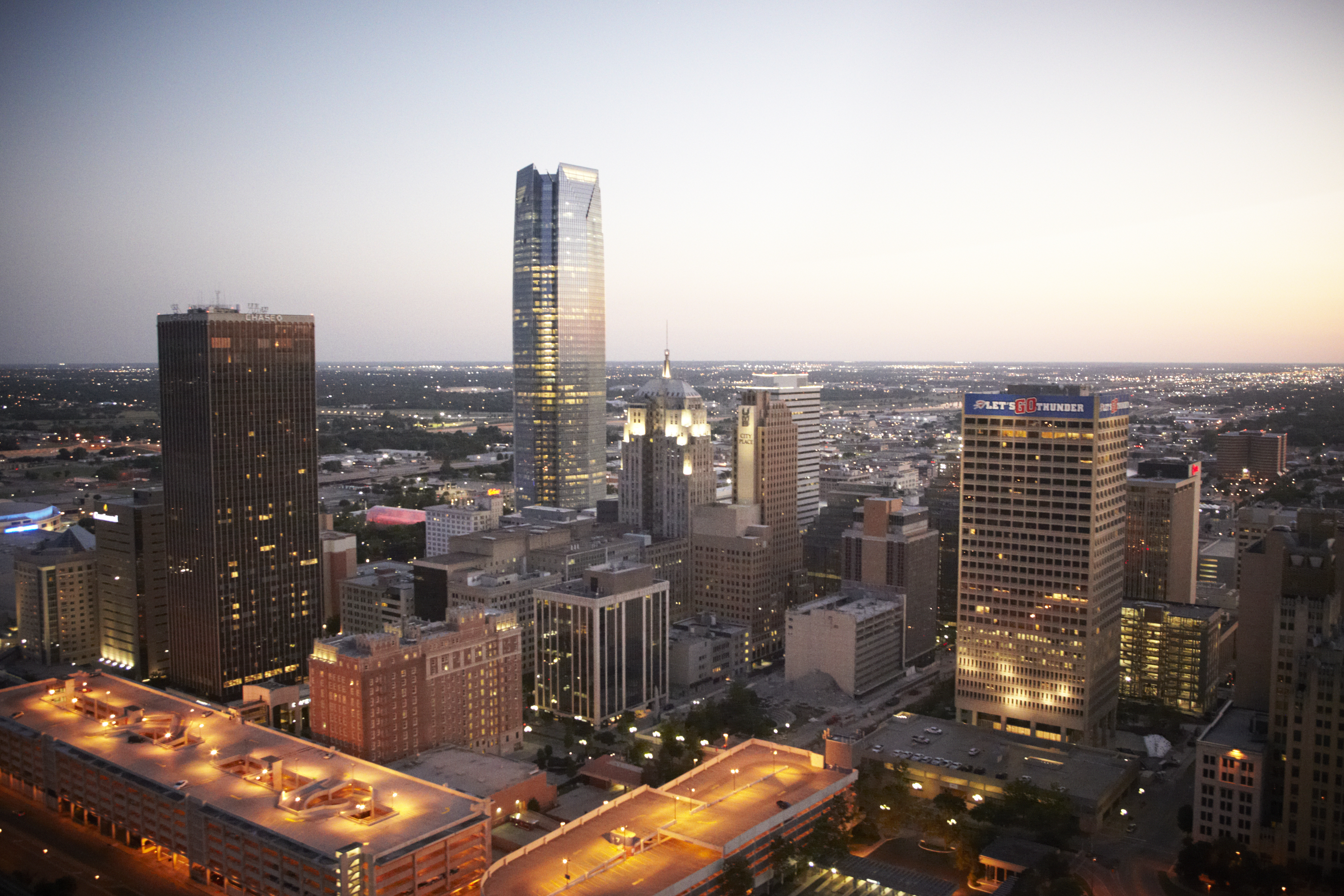 This photo of downtown Oklahoma City's skyline at twilight is current as of January 2015. It comes from the Flickr folder of photo assets for Media requests to the Greater Oklahoma City Chamber or the Oklahoma City.